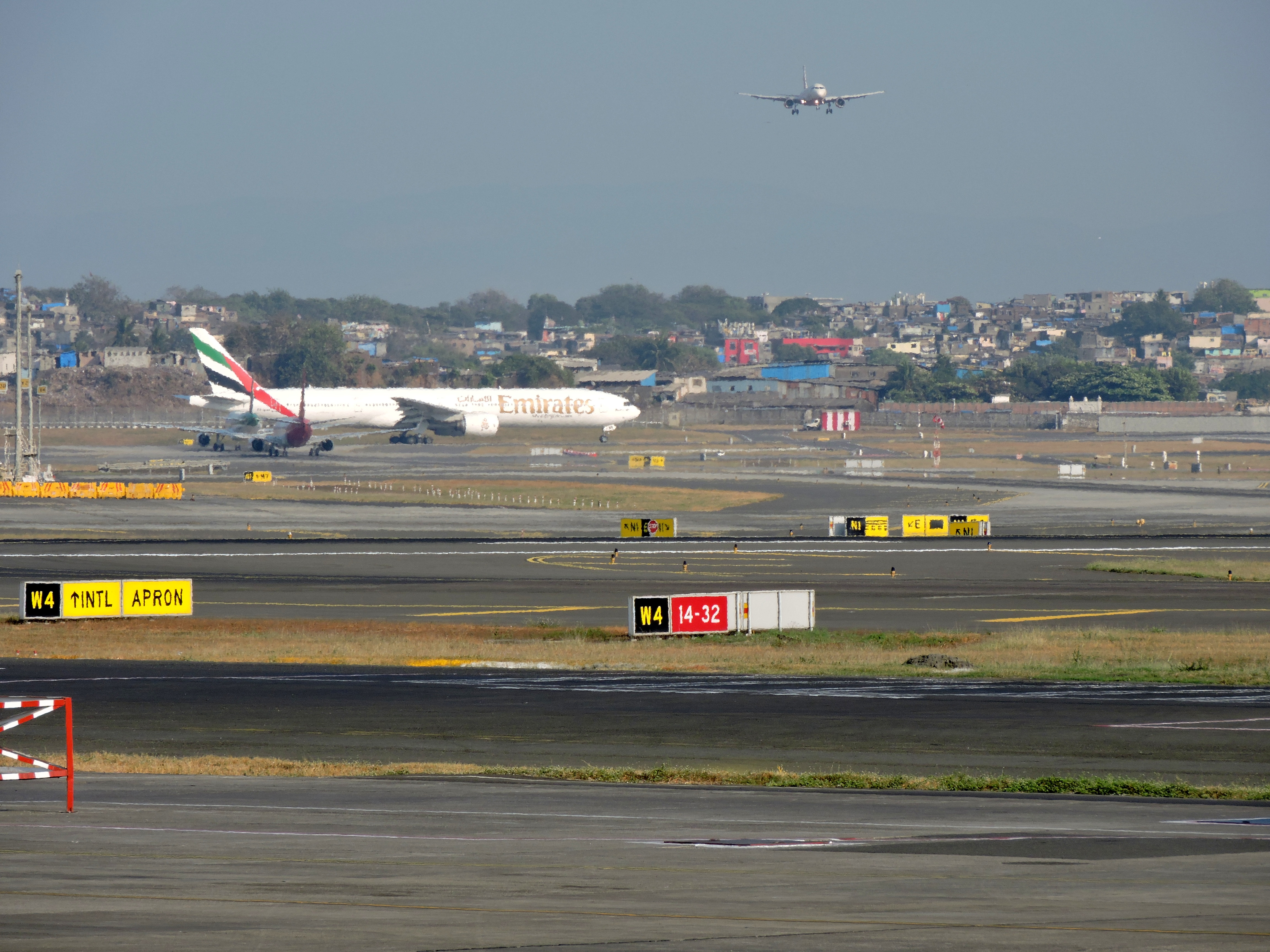 Chhatrapati Shivaji International Airport,Mumbai, India